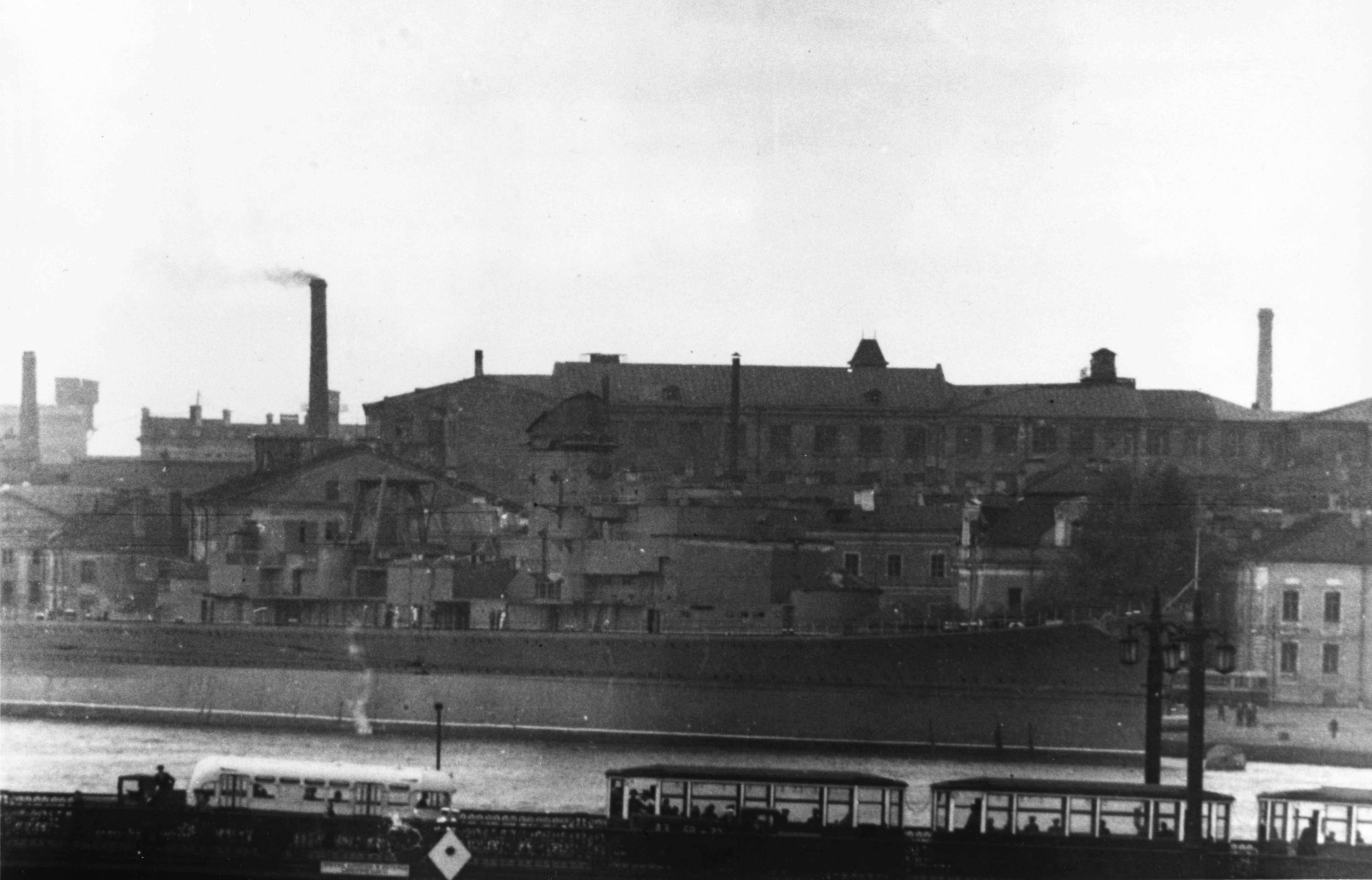 The Soviet cruiser Tallinn at Leningrad, Soviet Union, in the late 1940s. Tallinn was built in Germany as the heavy cruiser Lützow. She was sold to the Soviet Union in 1940, but was never completed. The ship became a barracks ship in 1949 and was scrapped in 1960.